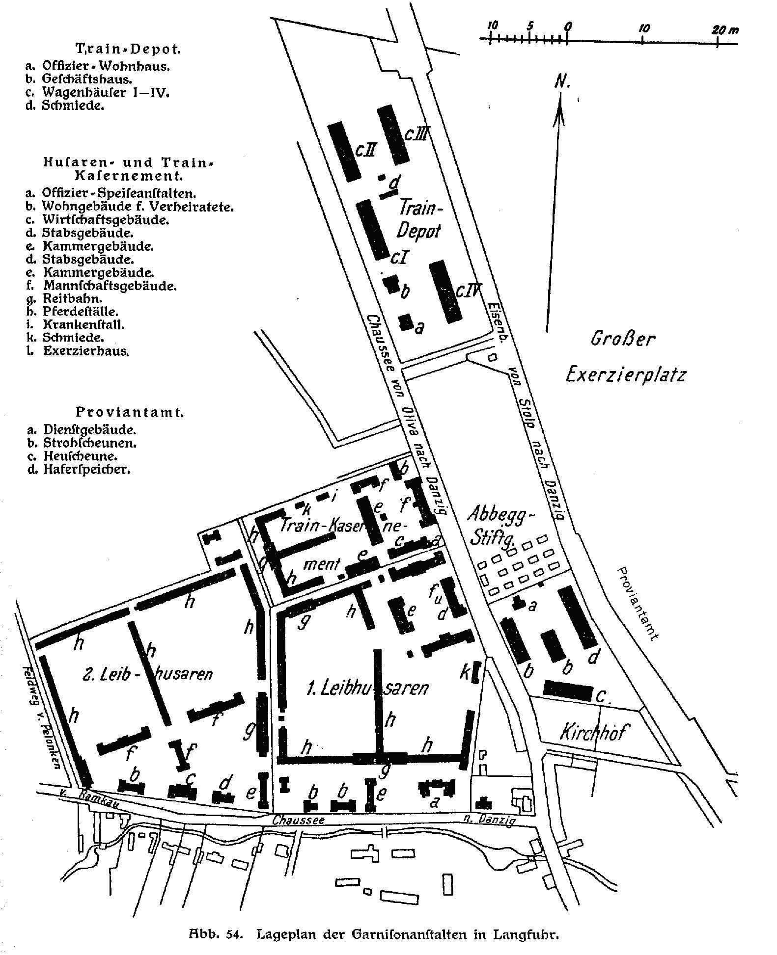 Map of garisson in Wrzeszcz from the begining of 20th Century.